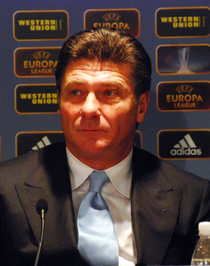 Walter Mazzarri after AIK-Napoli in 2012.